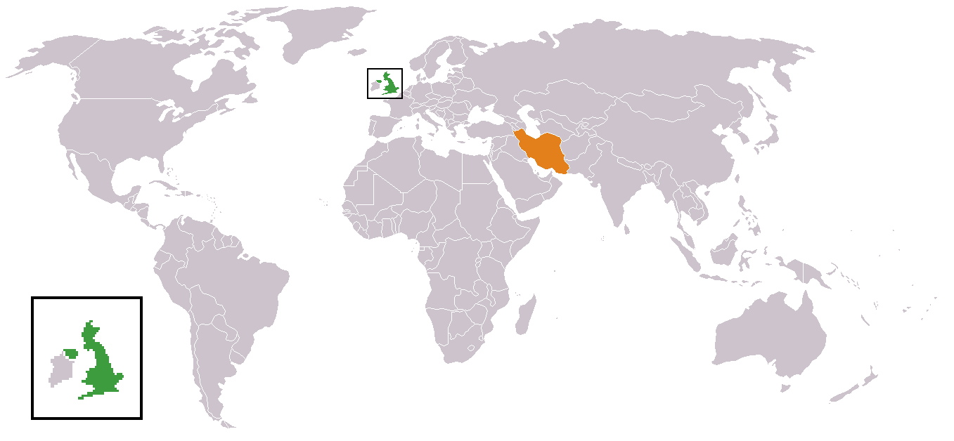 I created this article for use in the Iran-Britain relations article.